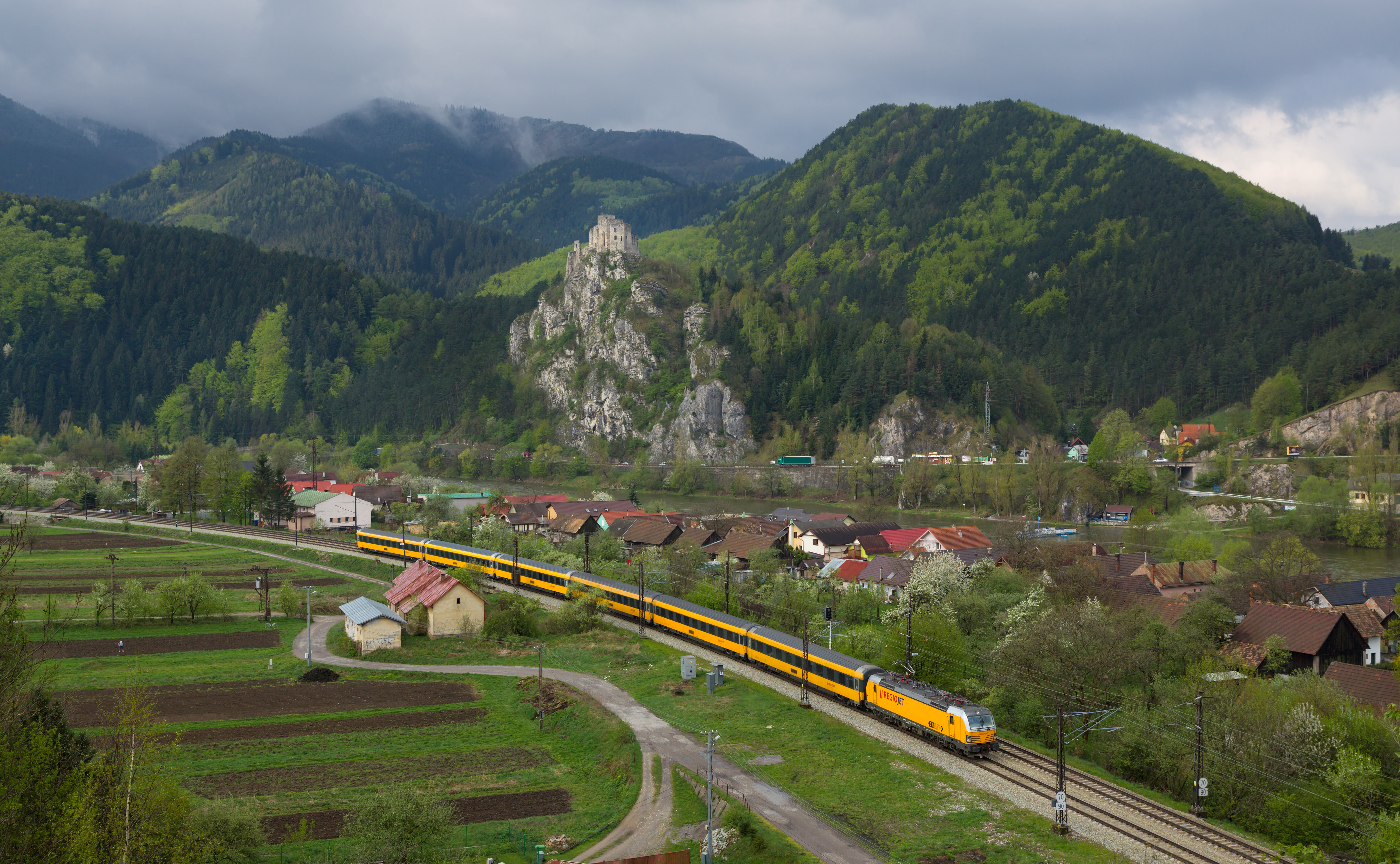 RegioJet 400 Košice - Bratislava pictured at Strečno, Slovakia.